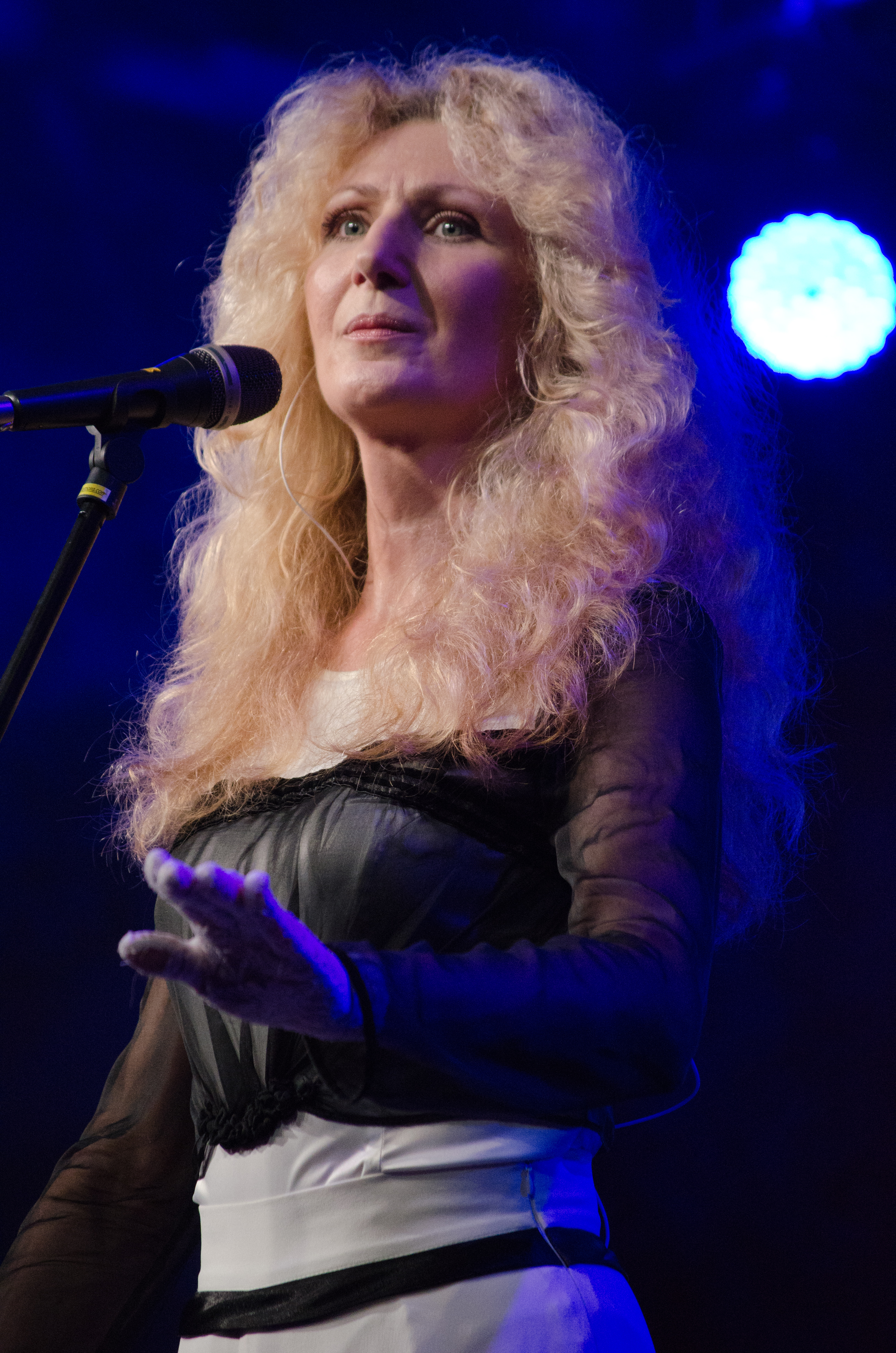 Koronatsiya Slova 2013 literature awards ceremony, Kiev, Ukraine